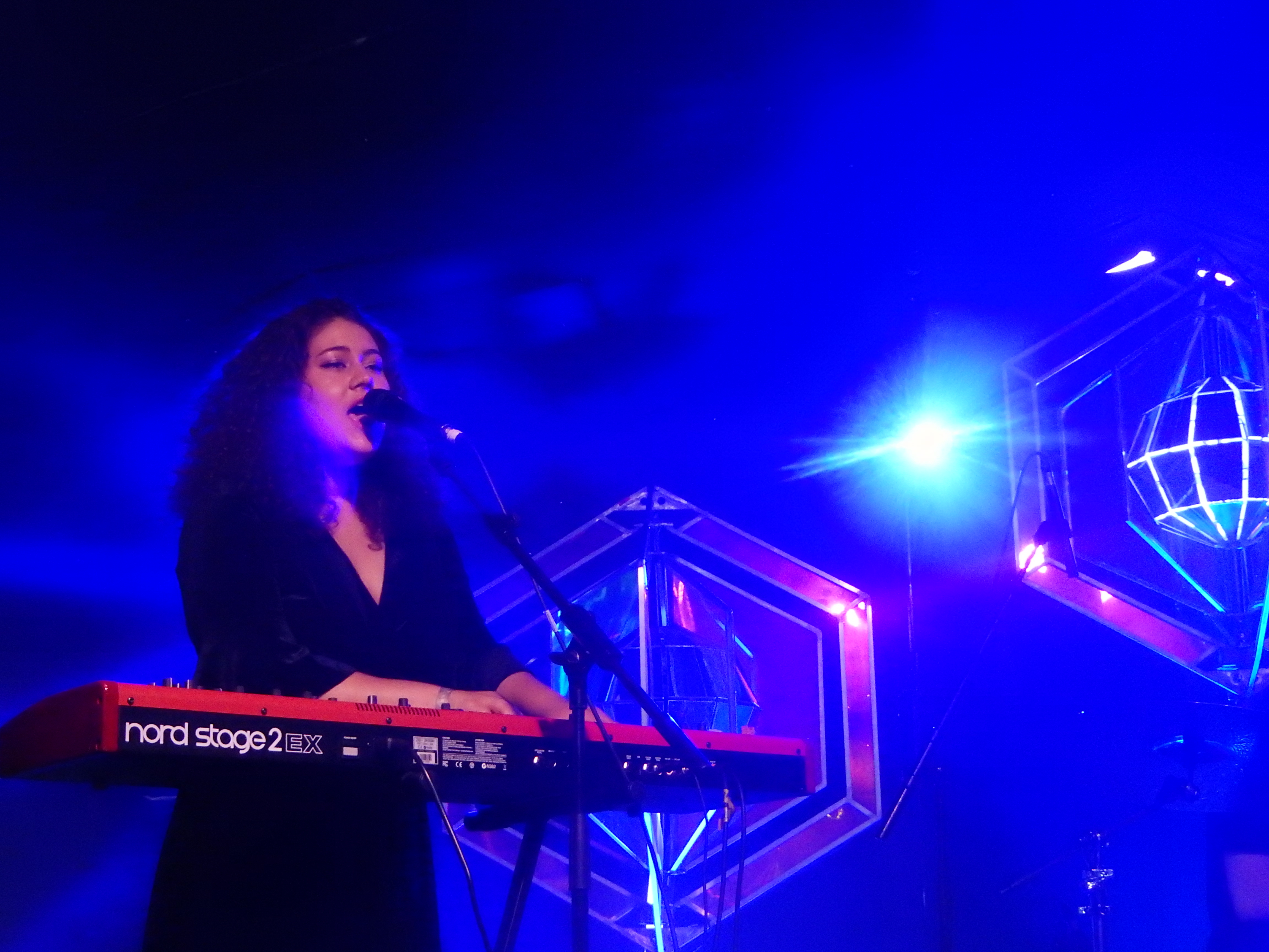 Odette performing at the Beach House for The Great Escape 2018